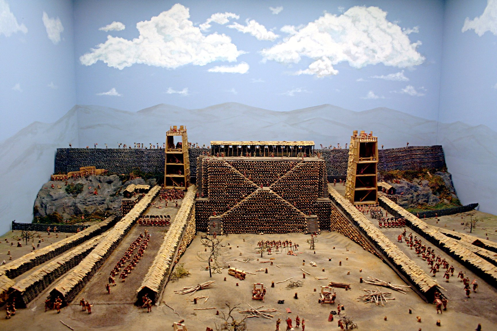 Photograph of a model of the siege of Avaricum at the museum of the United States Military Academy, United States of America